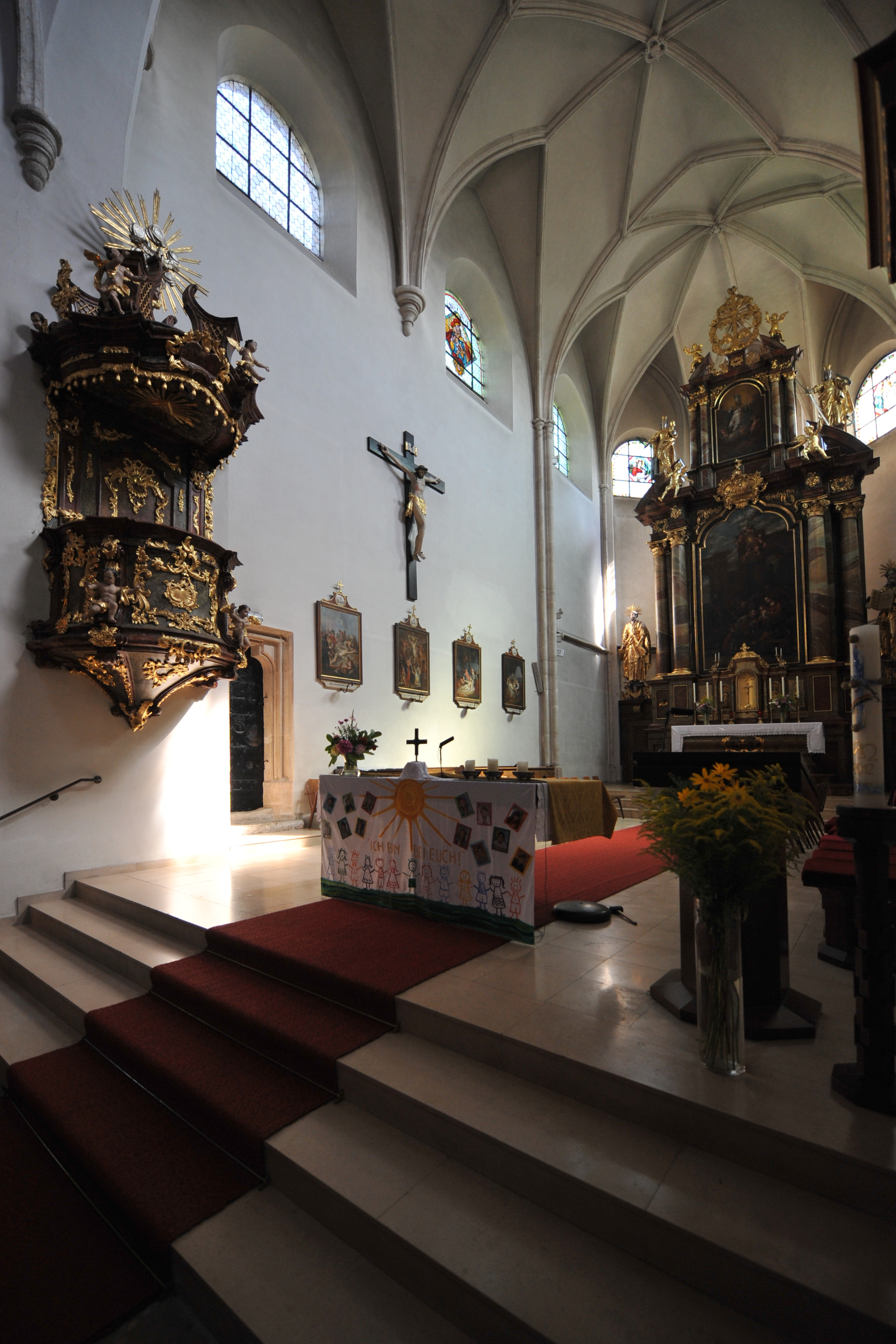 Kath. Pfarrkirche hl. Nikolaus mit Epitaph The making of this work was supported by Wikimedia Austria. For other files made with the support of Wikimedia Austria, please see the category Supported by Wikimedia Österreich.